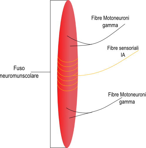 The picture shows the muscle spindle and theire fibers afferent (IA) and efferent gamma (γ).